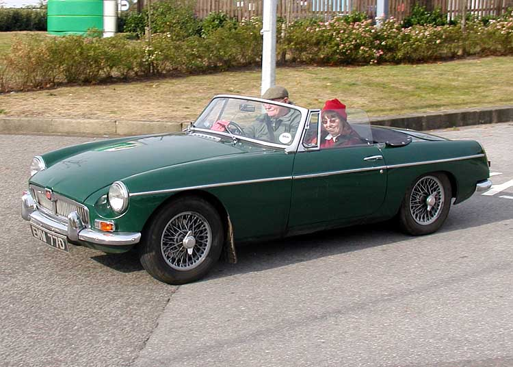 1966 MGB, at a Classics Rally, Bristol, England, in October 2003. Picture taken by Adrian Pingstone and released to the public domain.